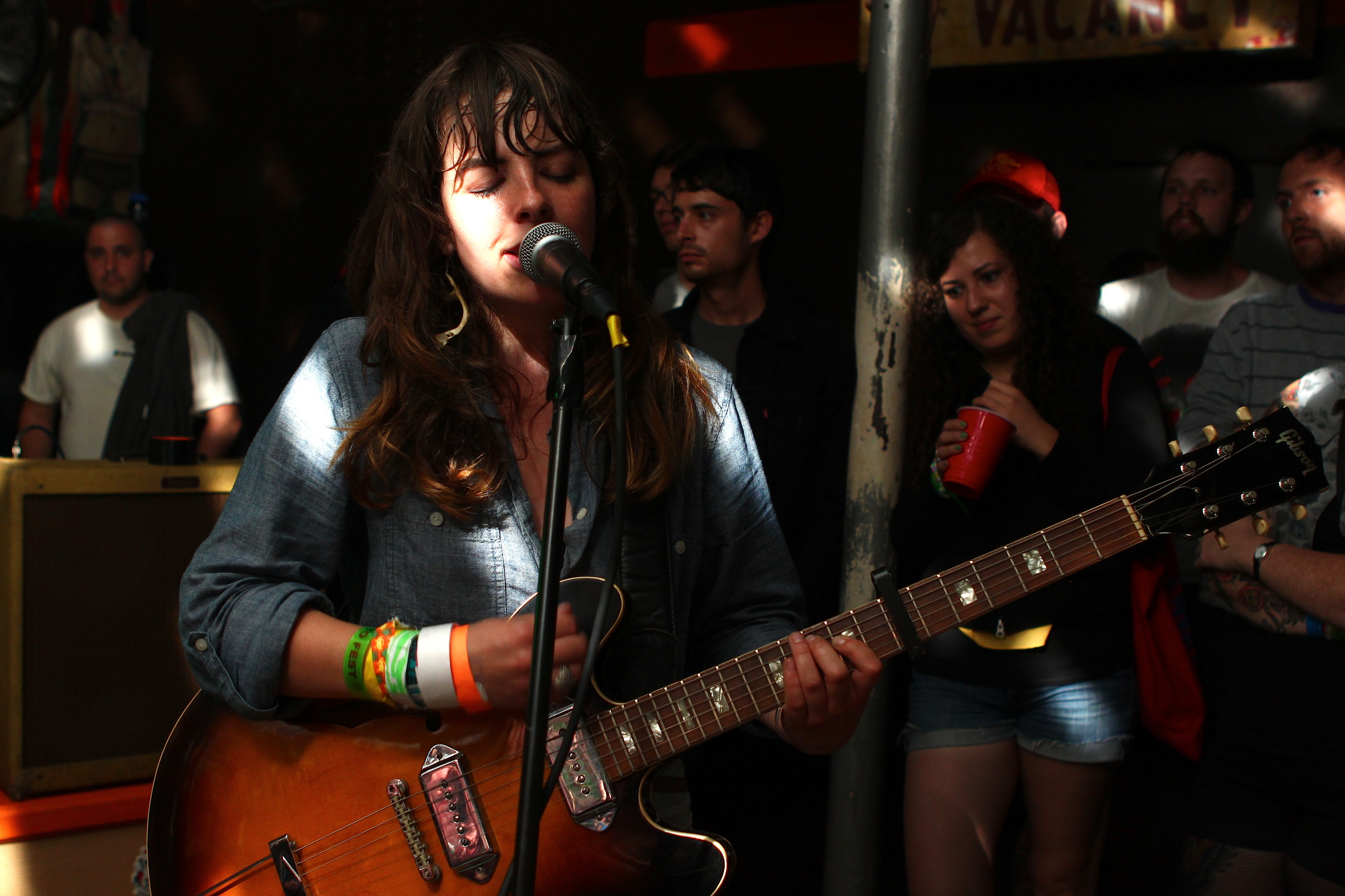 FEST 11 / Spank / Gainesville, FL / October 28, 2012